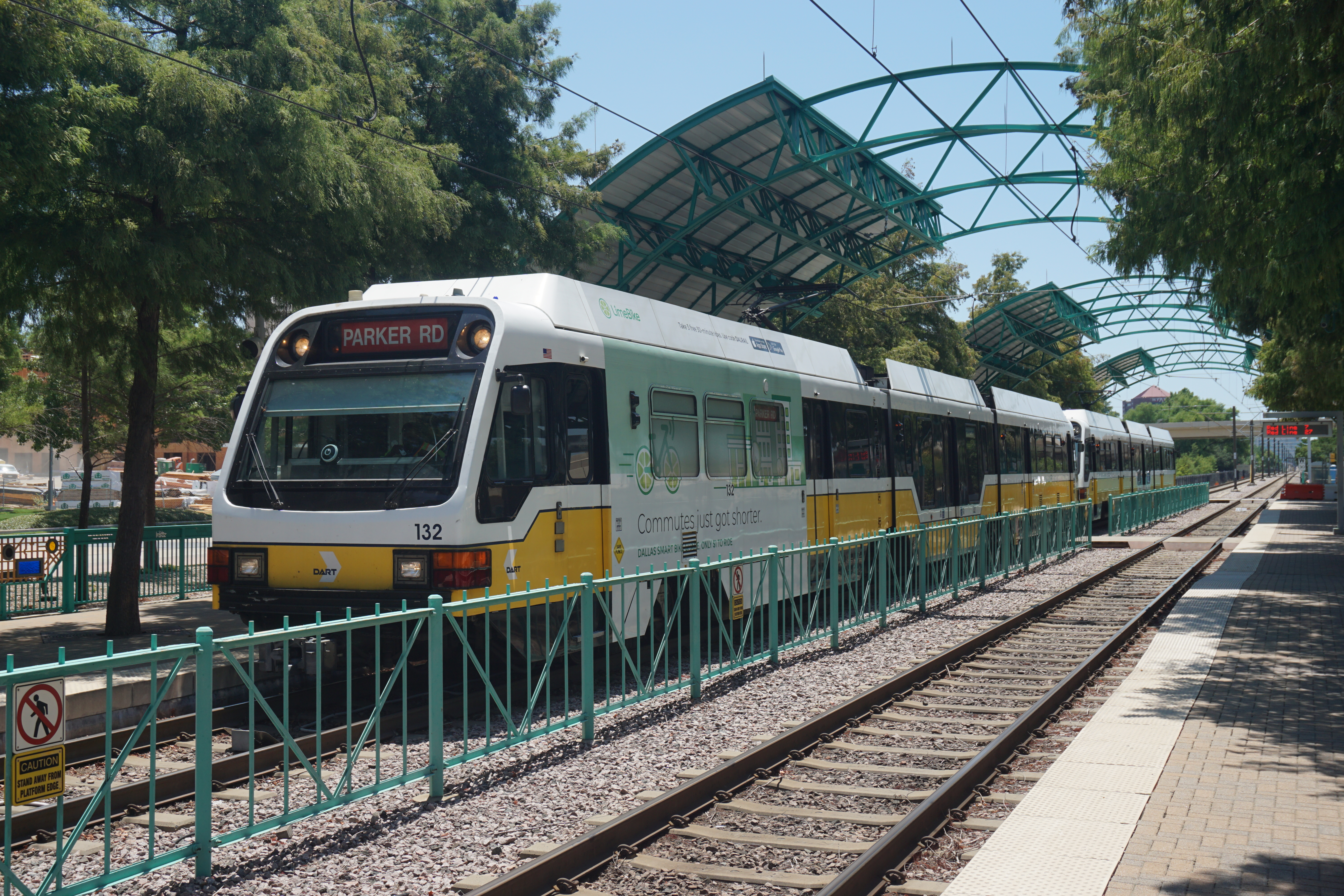 A DART Light Rail Red Line train at Galatyn Park Station in Richardson, Texas (United States).